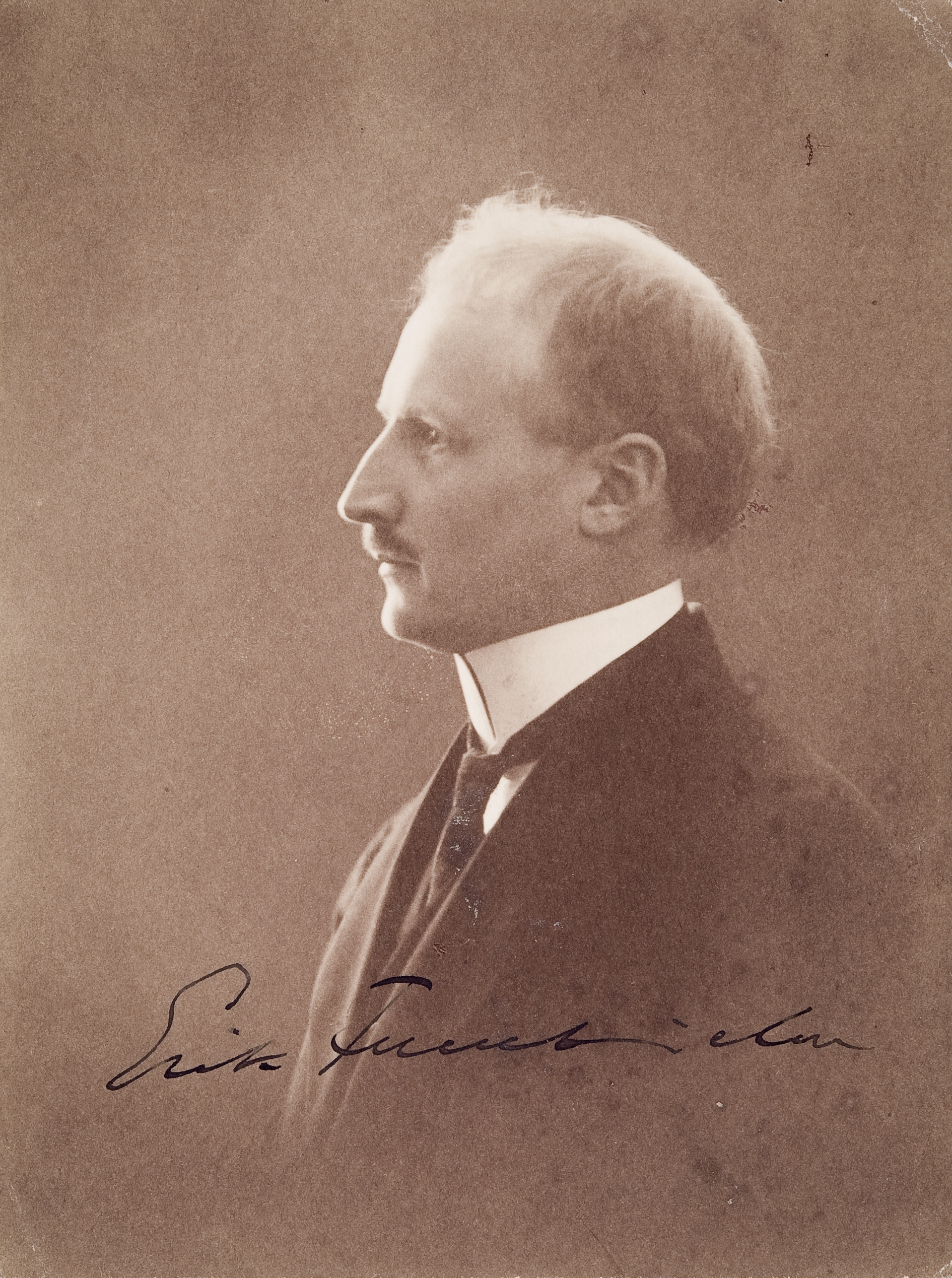 Signed photograph of the Finnish composer Erik Furuhjelm (1883–1964).